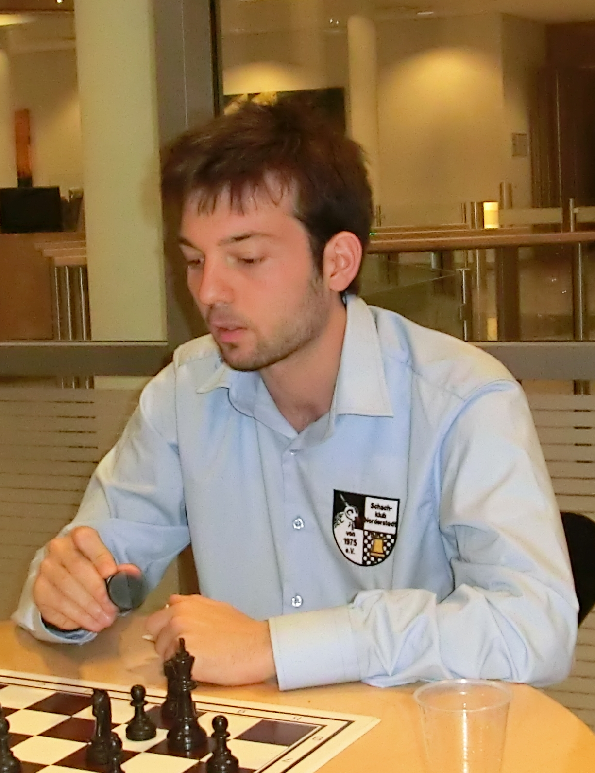 Iván Salgado López, chess grandmaster from Spain